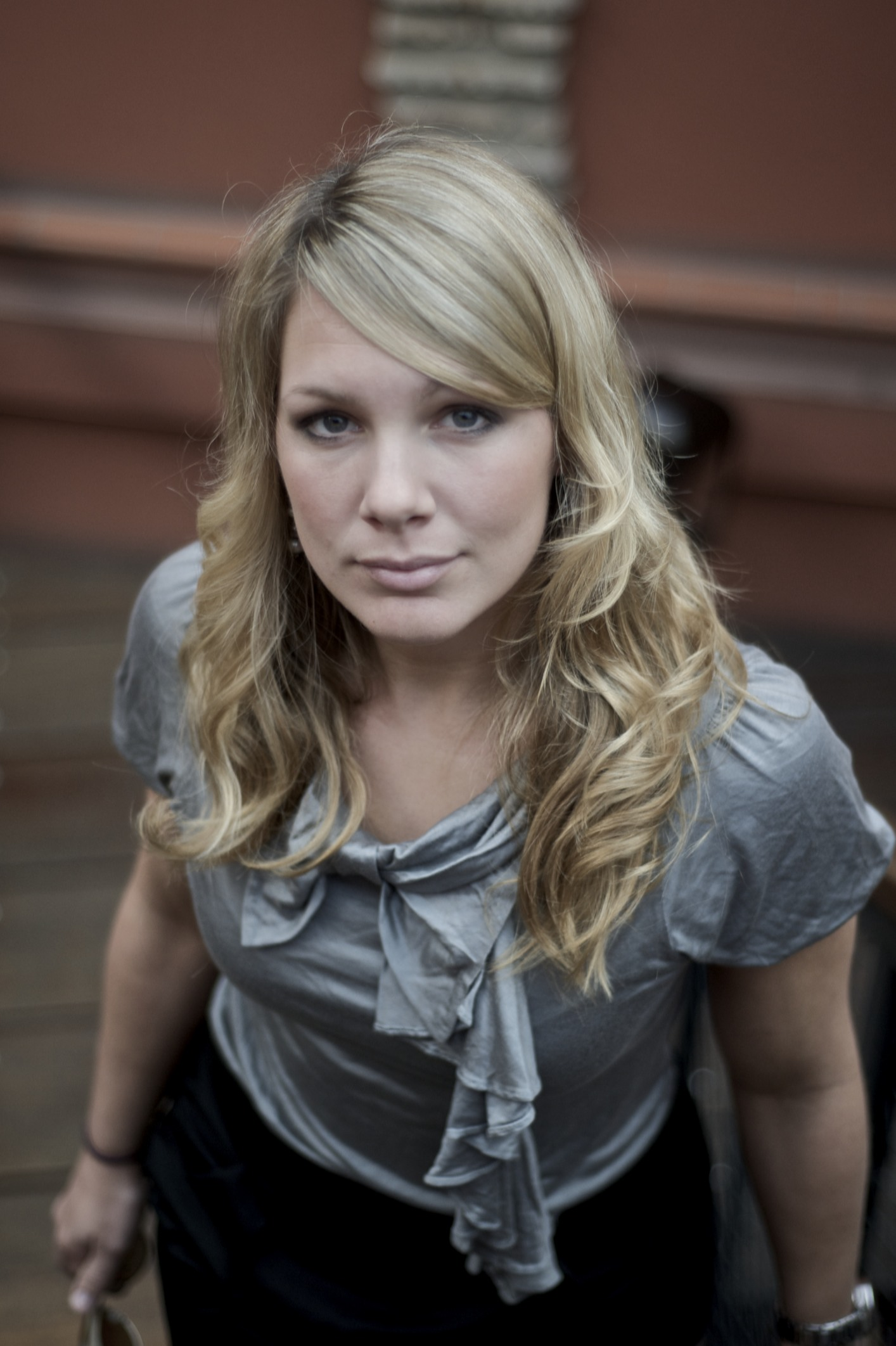 Anna Brolin på Banys Oriental, Barcelona Fotograf: Thomas Jansson Bilden togs: 20100312